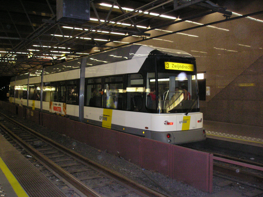 HermeLijn low-floor tram in the station of the Antwerp undeground tram system (called pre-metro by locals). Unfortunately, I've forgotten the station name. Please add it if you know.